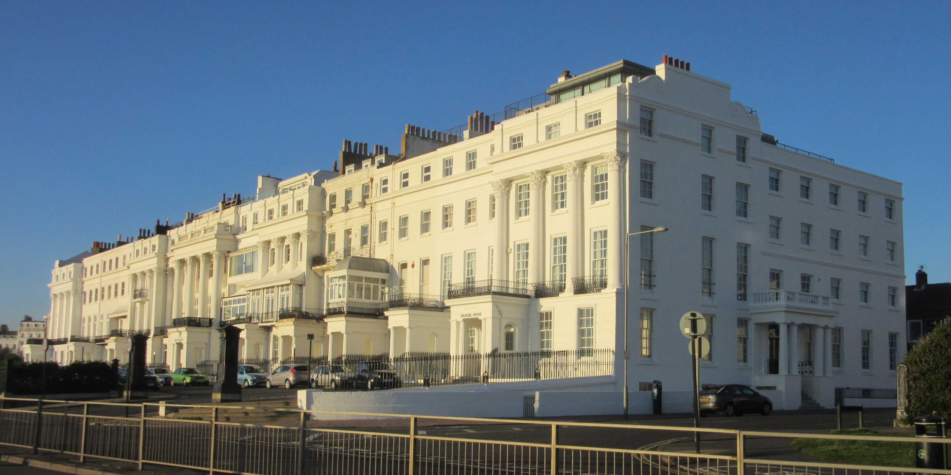 Arundel Terrace, Kemp Town, City of Brighton and Hove, England. The easternmost part of the 1820s Kemp Town development—financed by Thomas Read Kemp, designed by the Amon Wilds and Charles Busby partnership and partly built by Thomas Cubitt.